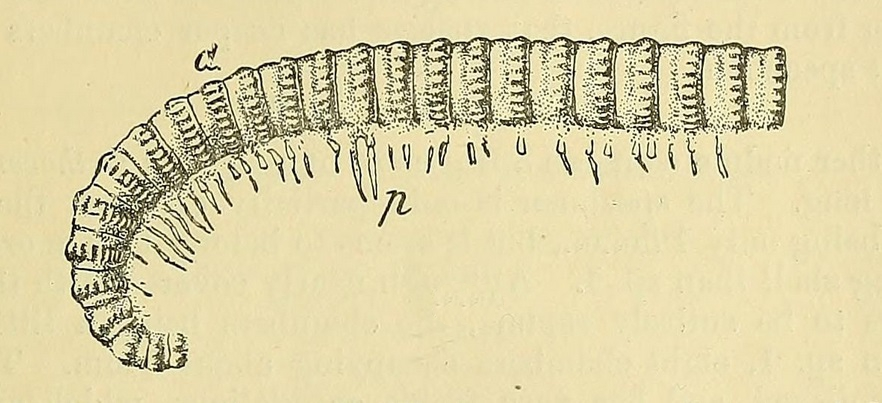 Xylobius moniliformis, H. "Woodw., sp. nov. Soapstone bed, Lower Coal-measures : Carre Heys, Colne, Lancashire. Enlarged twice natural size. d, dorsal aspect of specimen ; p, walking-feet.